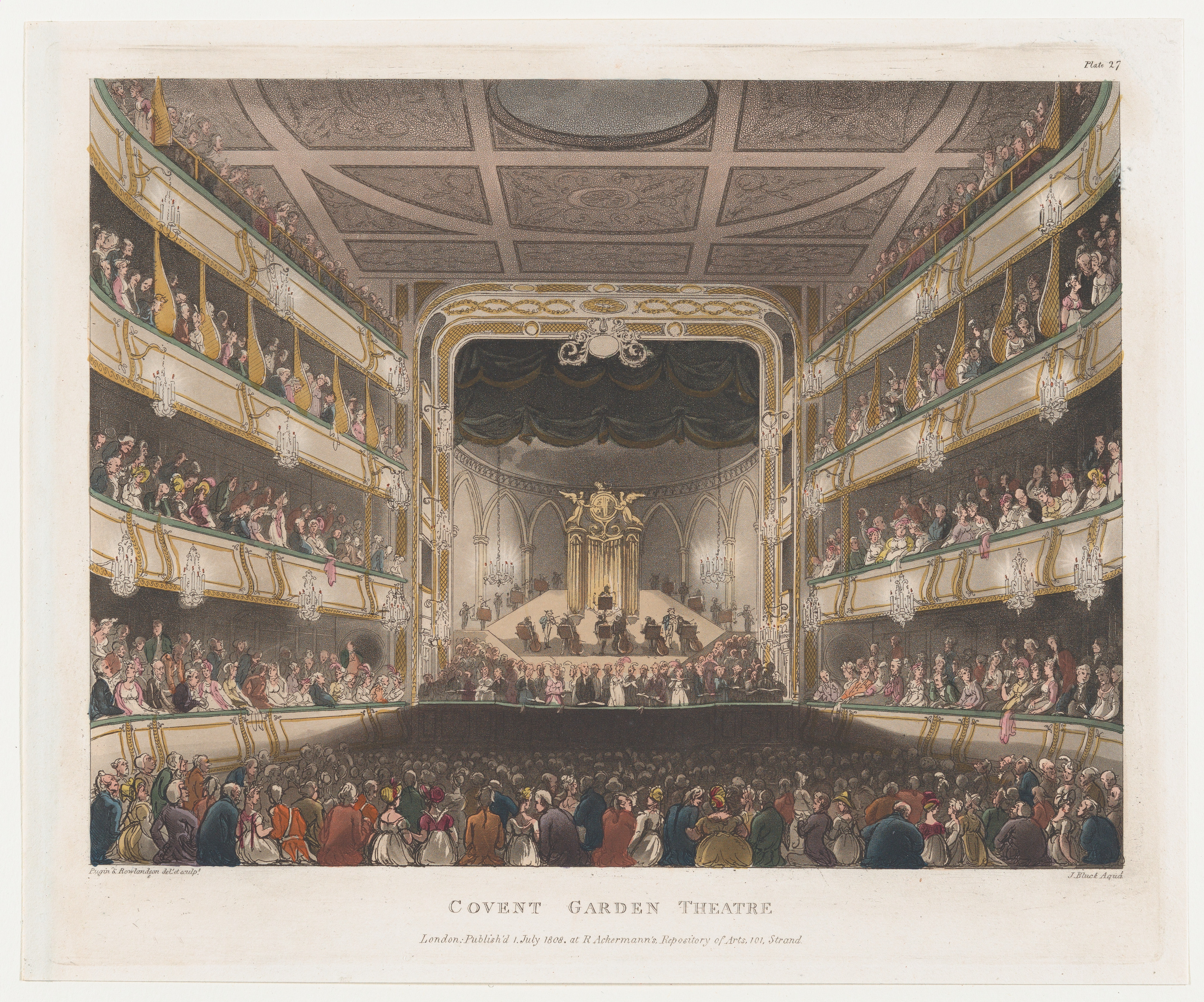 Print; Prints